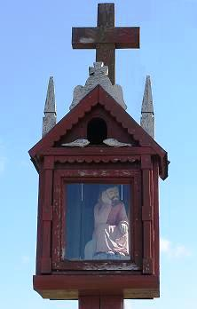 Laiviai, Kretinga district, Lithuania